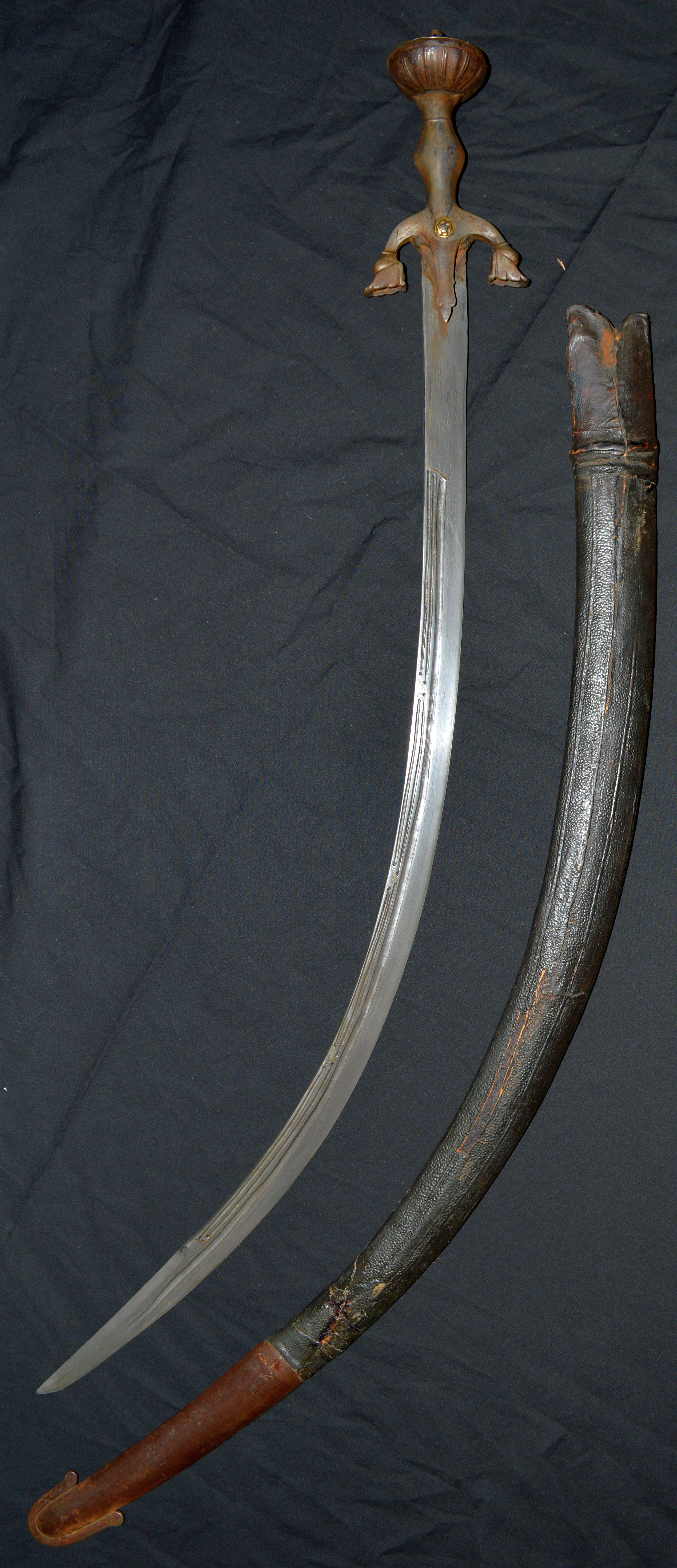 Afghanistan pulwar with 19th century mounts and possibly as early as 17th or 18th century huge deeply curved 82 cm blade of damascus watered steel, inlaid on one side with maker's mark and Islamic inscription, other gold inlays throughout the blade, large iron hilt with characteristic down turned quillions and brass rivet caps, inside measurment 104 cm, leather over wood scabbard with iron chape.